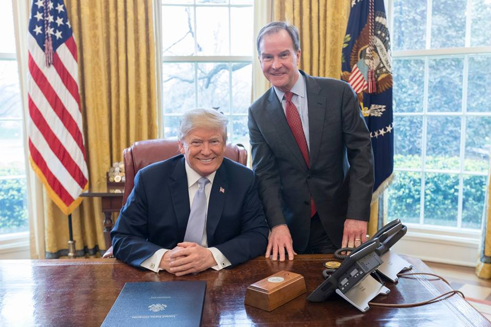 TBT-Last week I was fortunate to visit the Oval Office with @POTUS. I am honored to have his support. The President won Michigan because he said he would bring jobs and he has. Now we will implement my #PaycheckAgenda to help MI lead the nation. (W.H. Photo by Shealah Craighead)